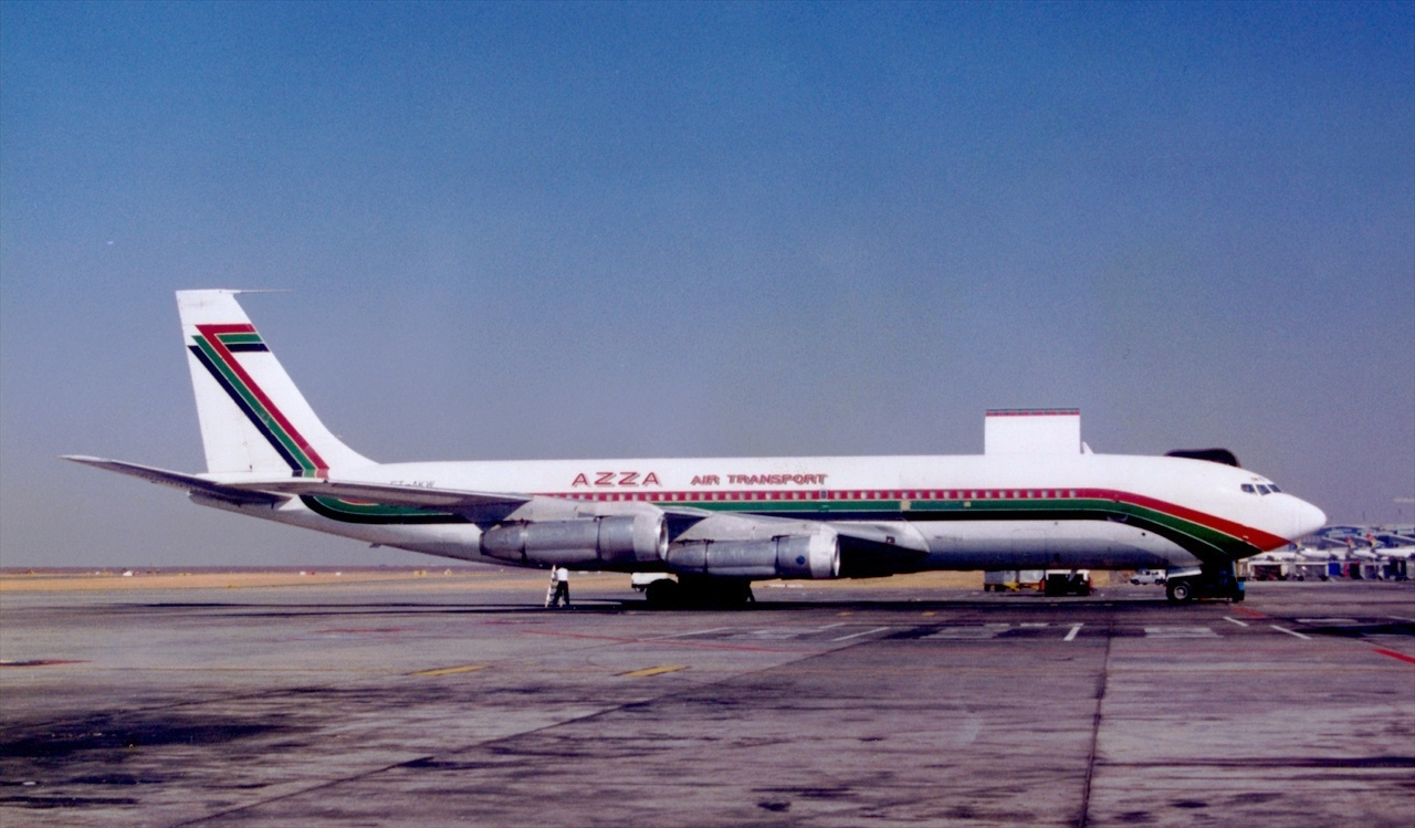 Crashed Sharjah 21st October 2009